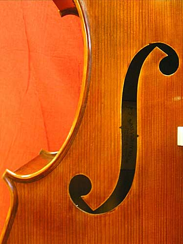 F-hole of a double bass